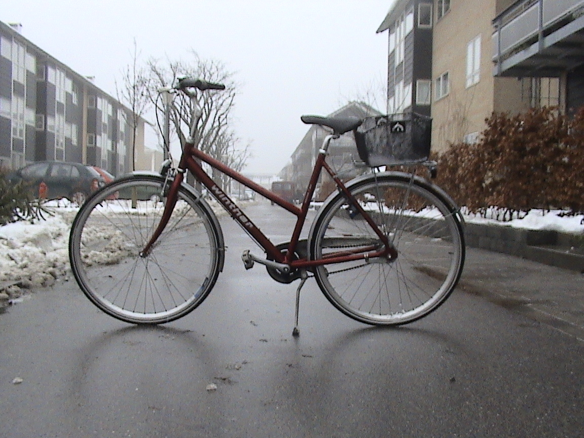 Damecykel - bicycle, ladies-frame. Photo by: Ernst Poulsen